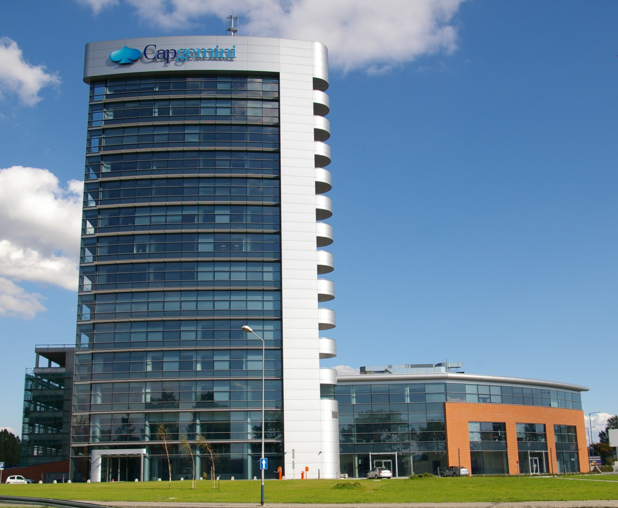 Rondo Business Park skyscraper with Capgemini centre in Kraków, Poland